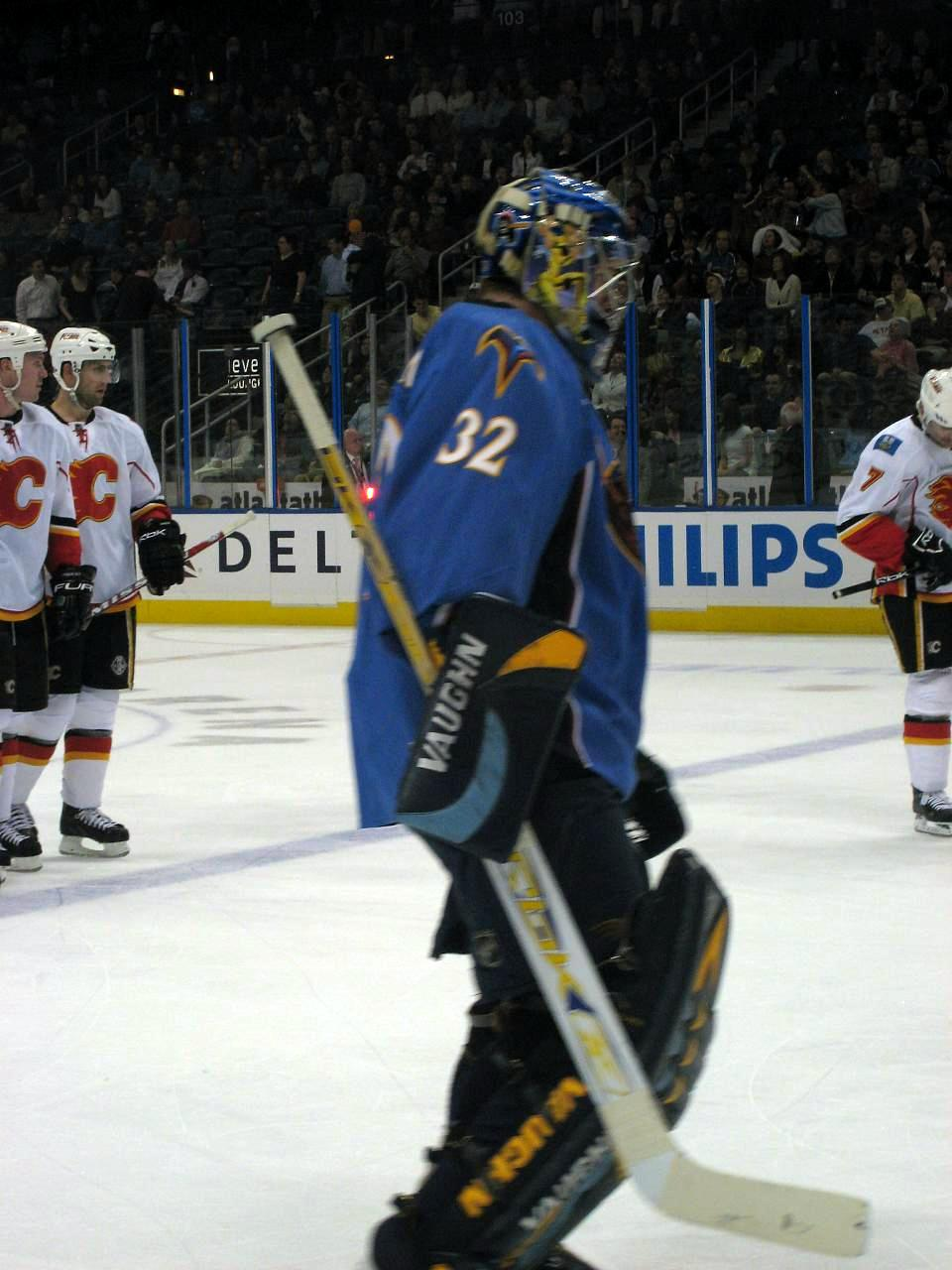 Thrashers v. Flames - March 13, 2008. Great seats 114 A. Oh yeah, and the Thrashers won 6-4 after falling behind 3-0